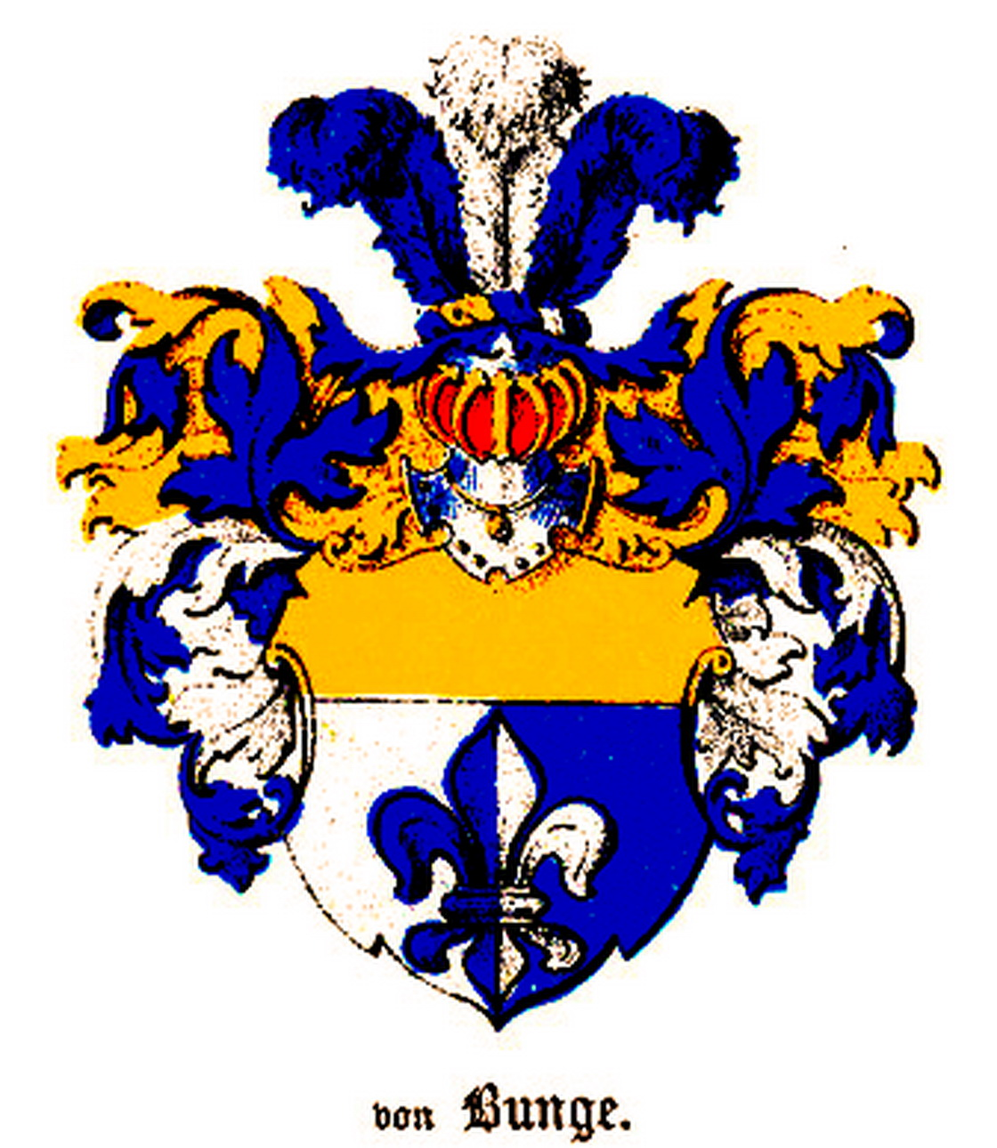 Bunge family coat of arms